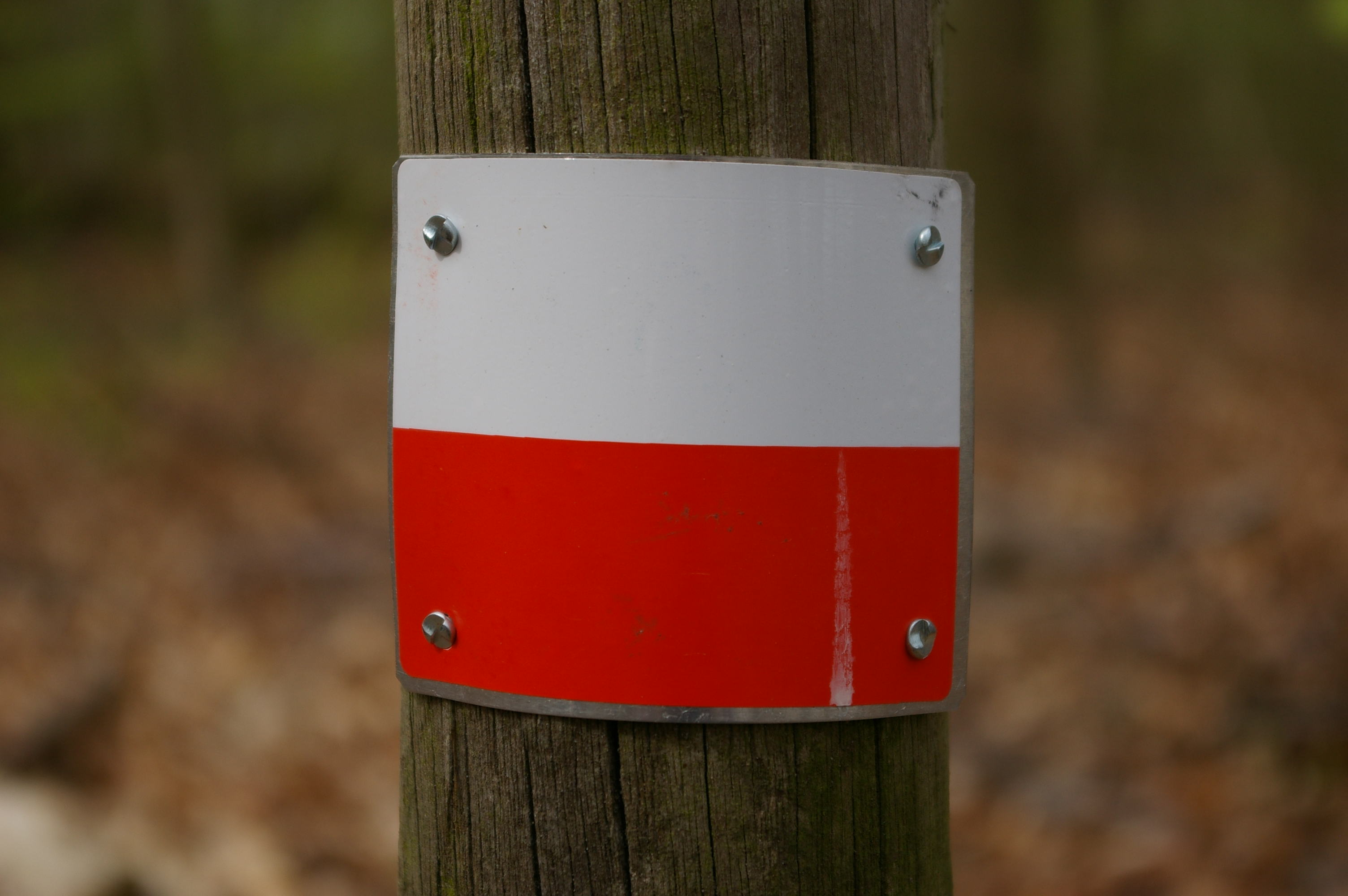 Standard Dutch long distance hiking route markings